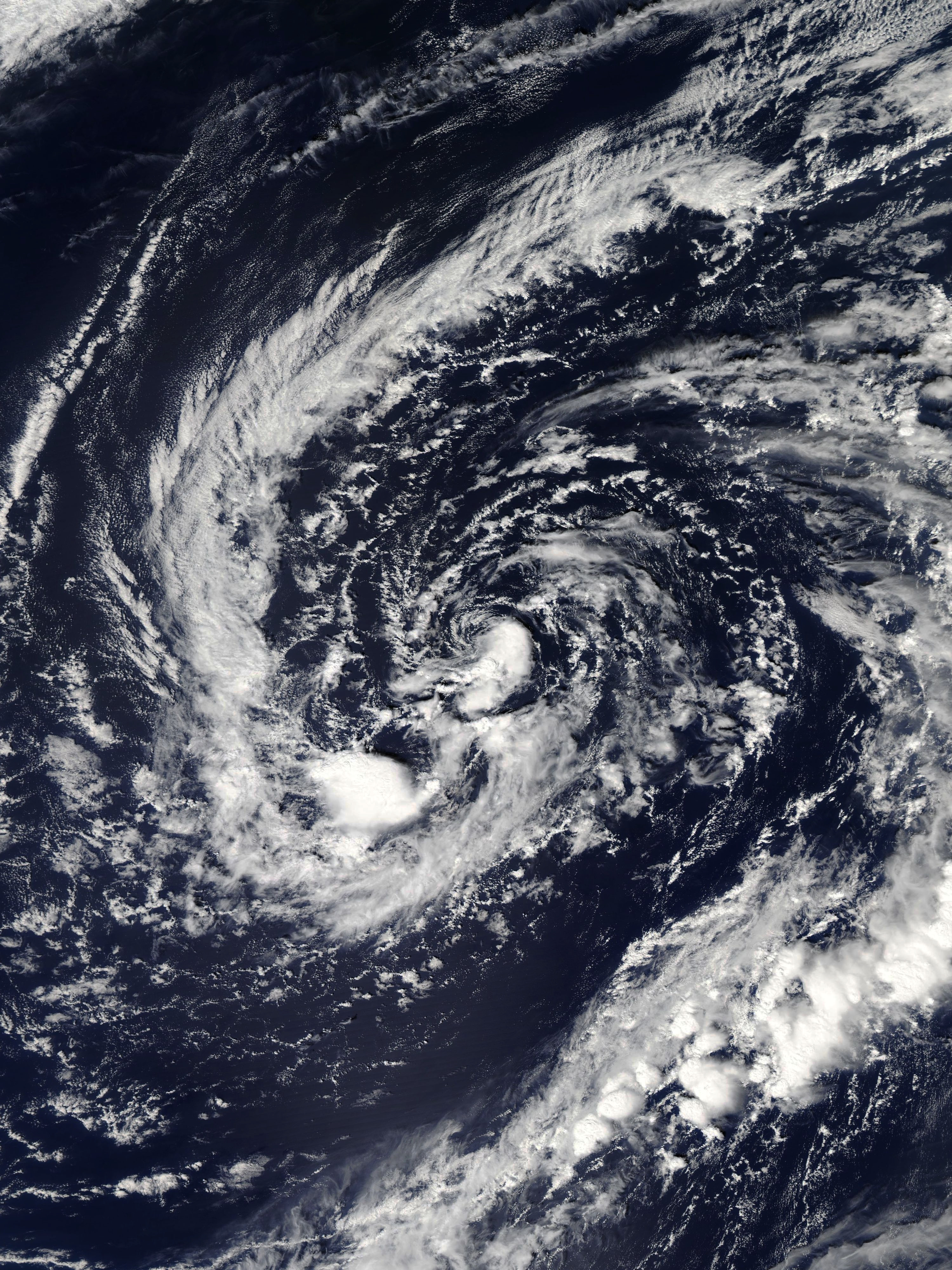 Subtropical Storm Leslie on September 23, 2018